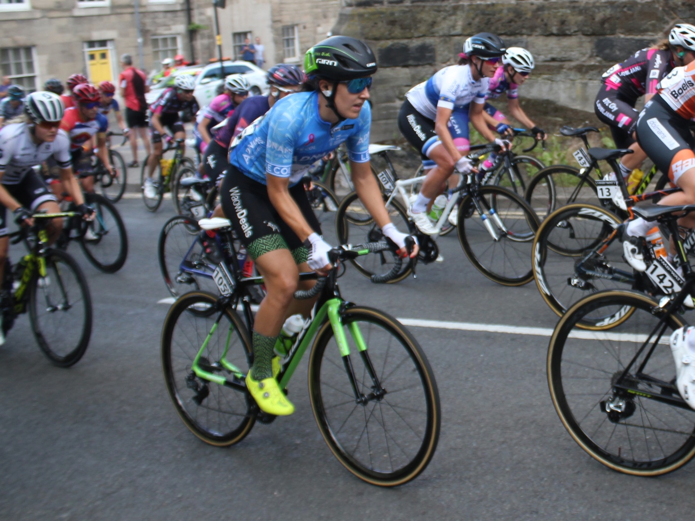 Dani Rowe rides through Warwick wearing the blue jersey of the best British rider in the 2018 Women's Tour. She is being supported by her WaowDeals team mate Marianne Vos who is wearing the European champion's white and blue jersey.